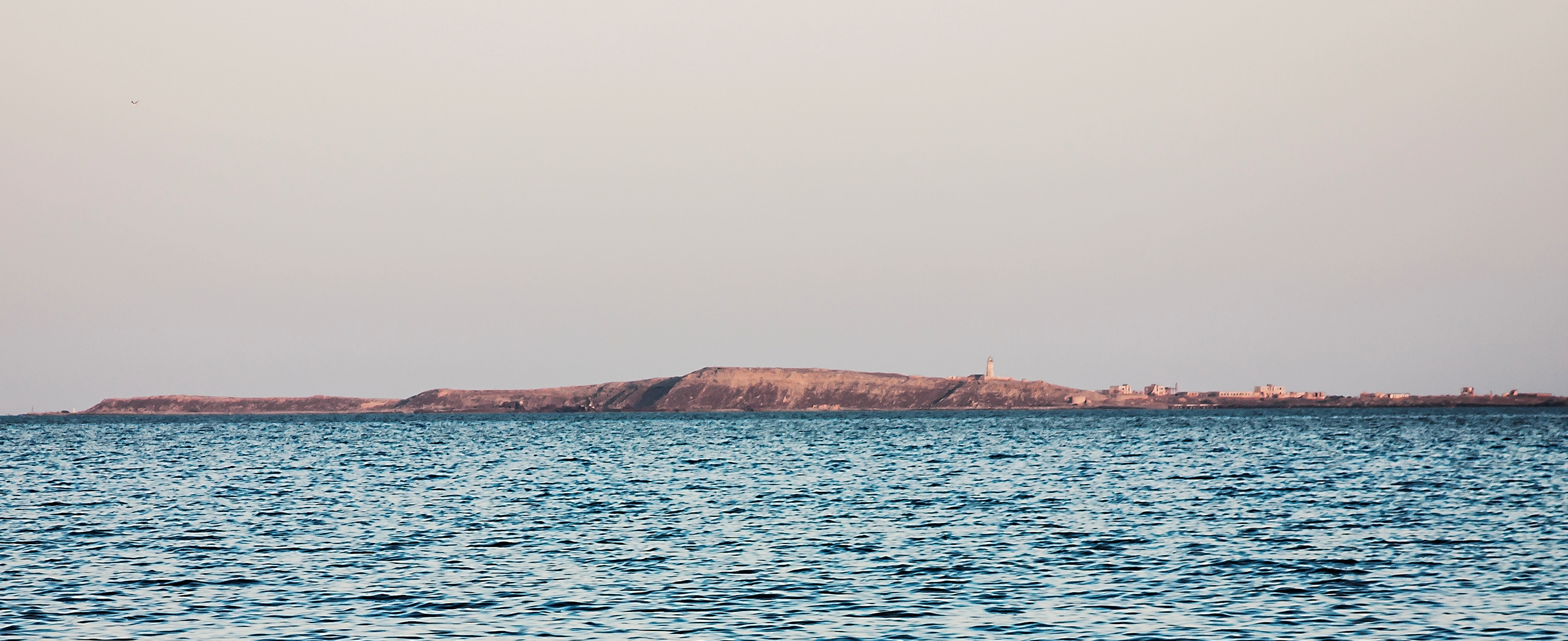 Caspian Sea Island, located in the bay of Baku, Boyuk Zira (Nargin)